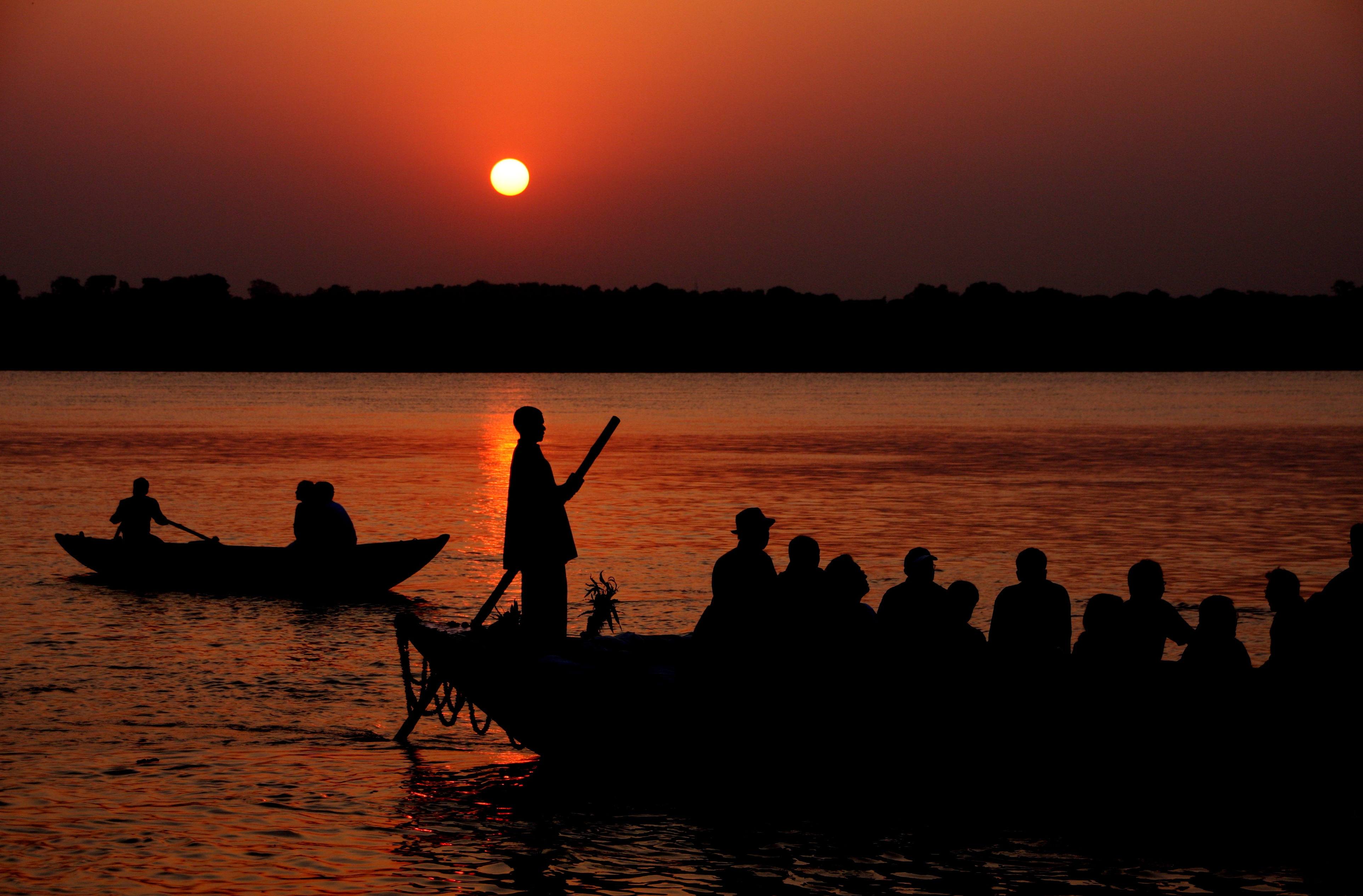 .82 degree rotation of "Boat ride at Sunrise, on the Ganges, Varanasi"